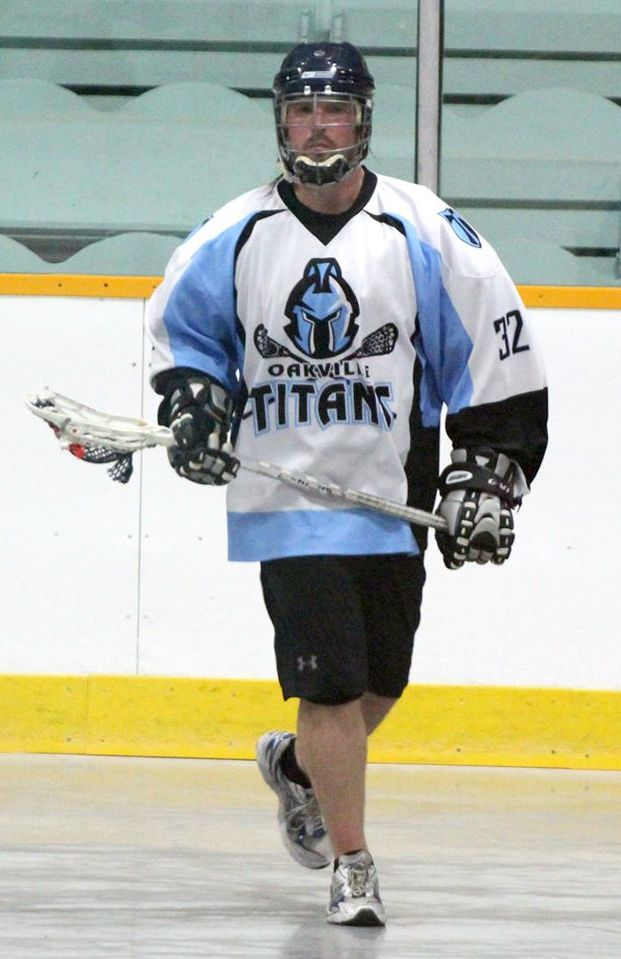 This photo was taken by Devan Mighton during the 2015 OSBLL season.